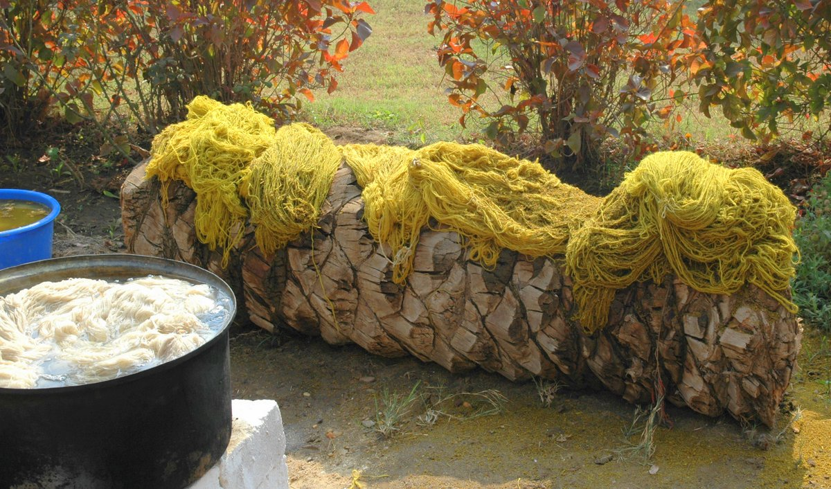 Yellow wool dyed with reseda in 2016 for the tapestries woven at the Ramses Wissa Wassef Art Centre, Giza, Egypt